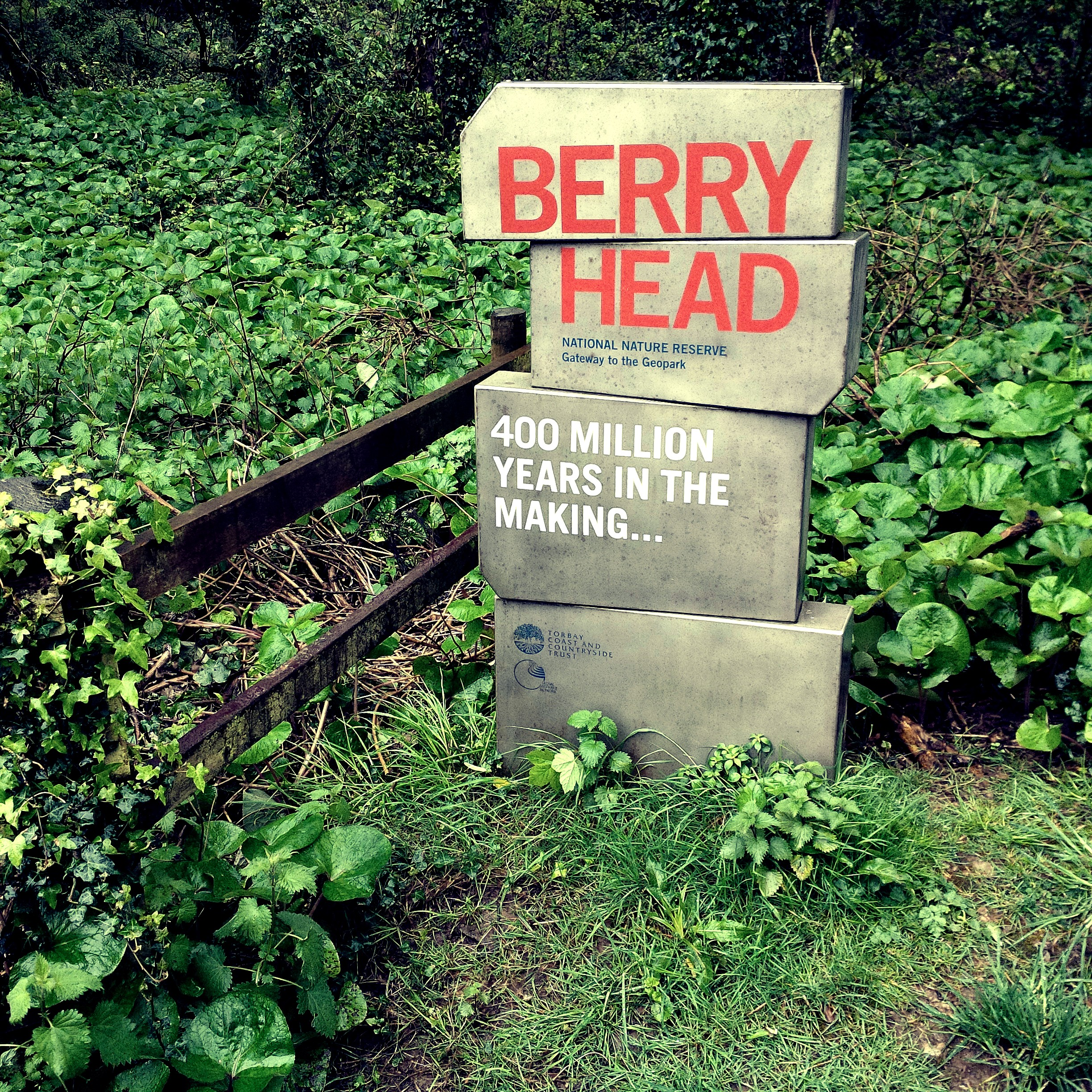 Gateway to the Geopark - Berry Head, National Nature Reserve (2014).